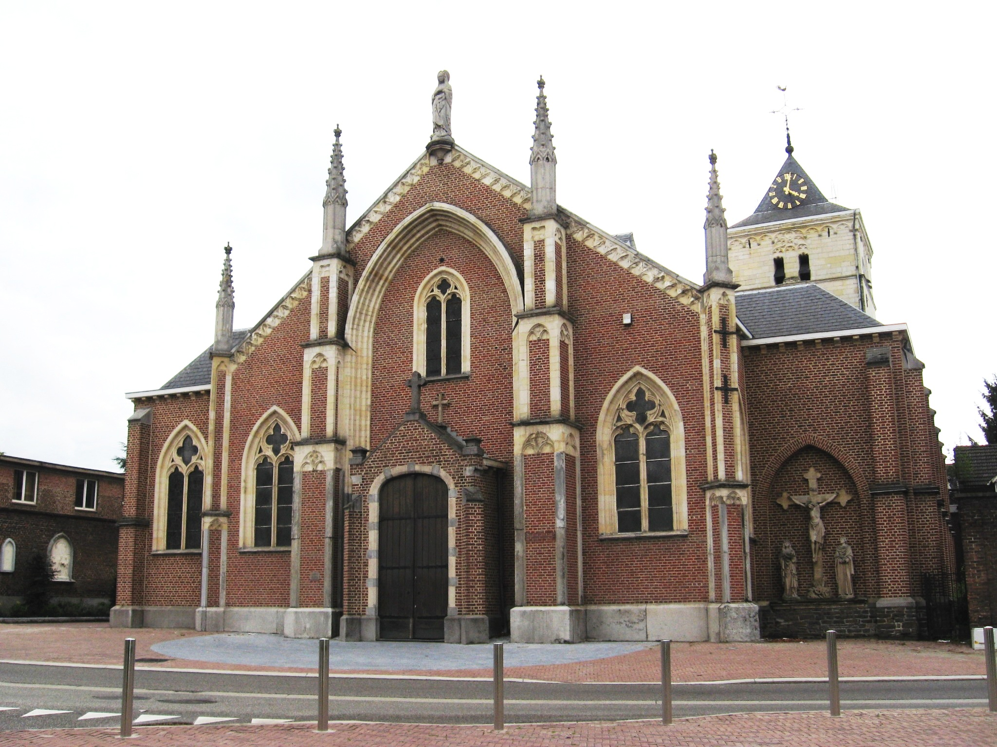 Church of the Assumption of Saint Mary in Munsterbilzen, Bilzen, Limburg, Belgium